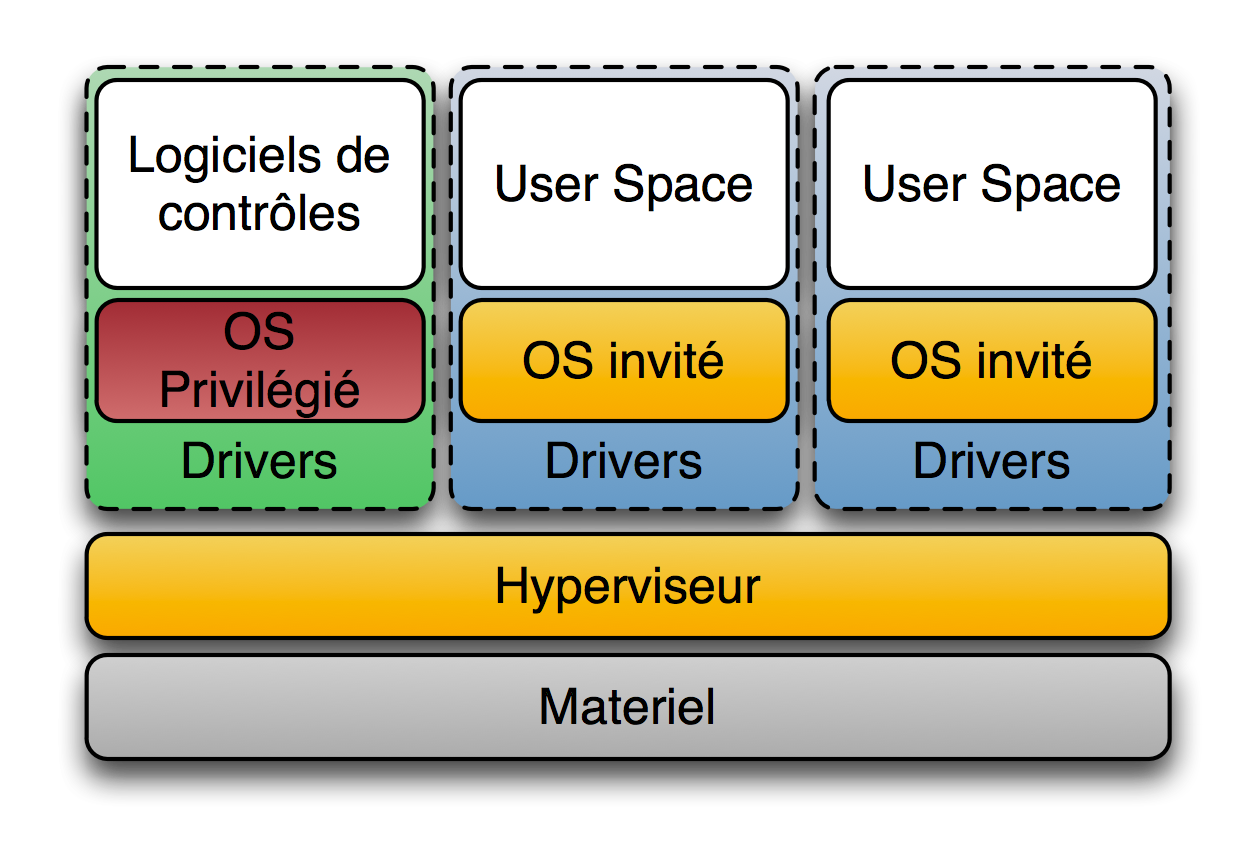 Virtualization, architecture of a Hypervisor